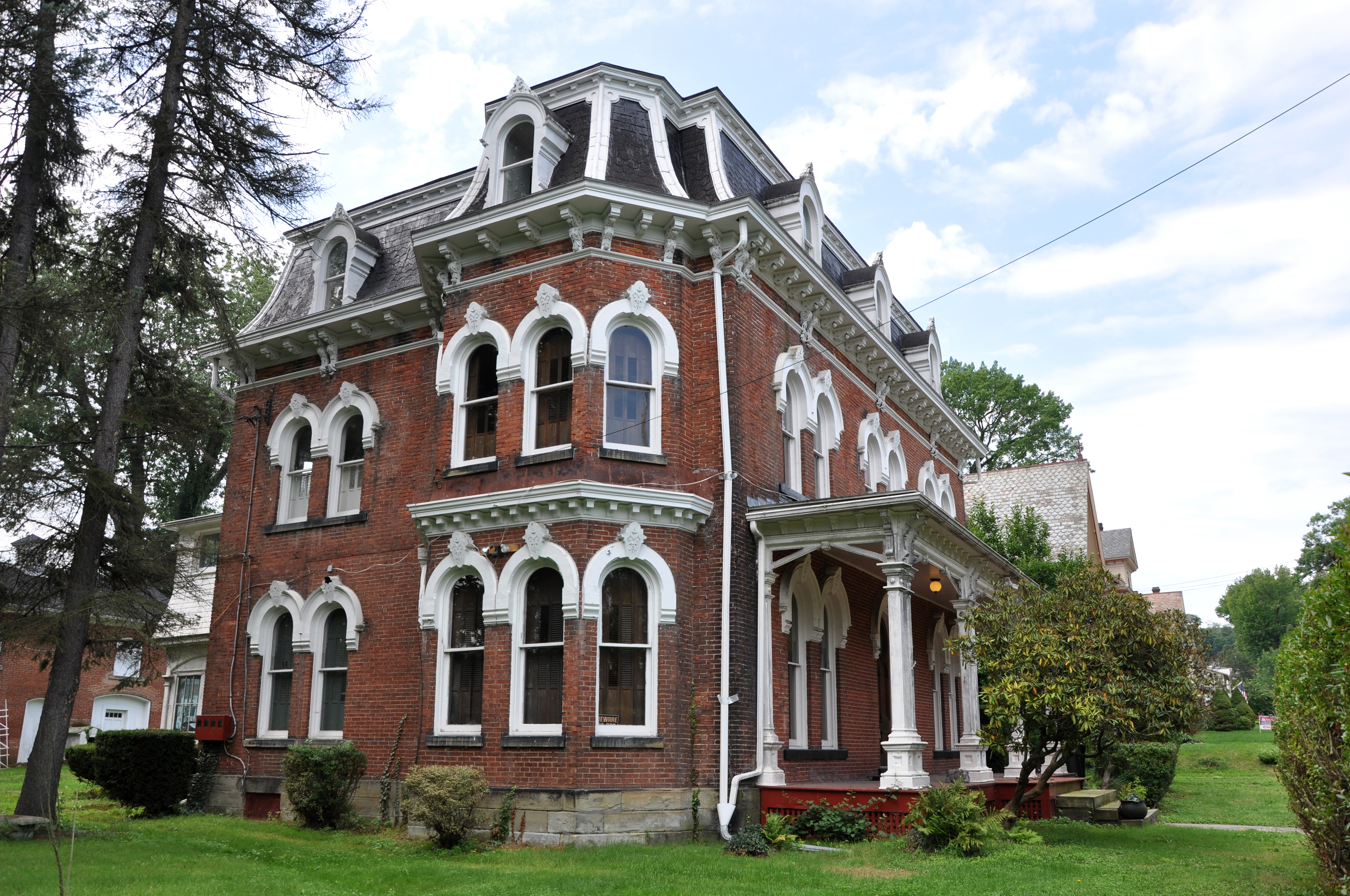 Samuel F. Dale House in Franklin in the U.S. state of Pennsylvania. The house is listed on the National Register of Historic Places.